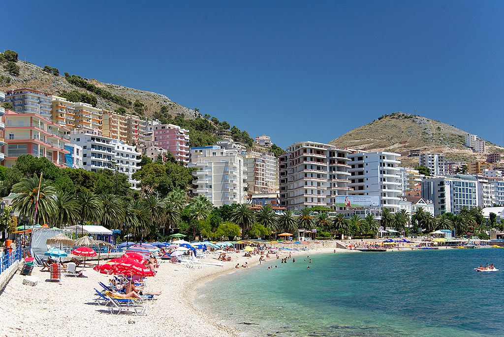 Saranda in southern of Albania